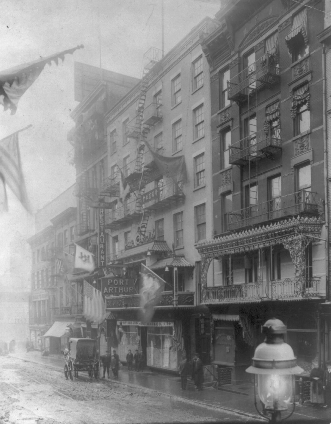 Title: New York City Chinatown decorated for New Year, Jan. 21, 1909 - looking toward Port Arthur restaurant Abstract/medium: 1 photographic print.